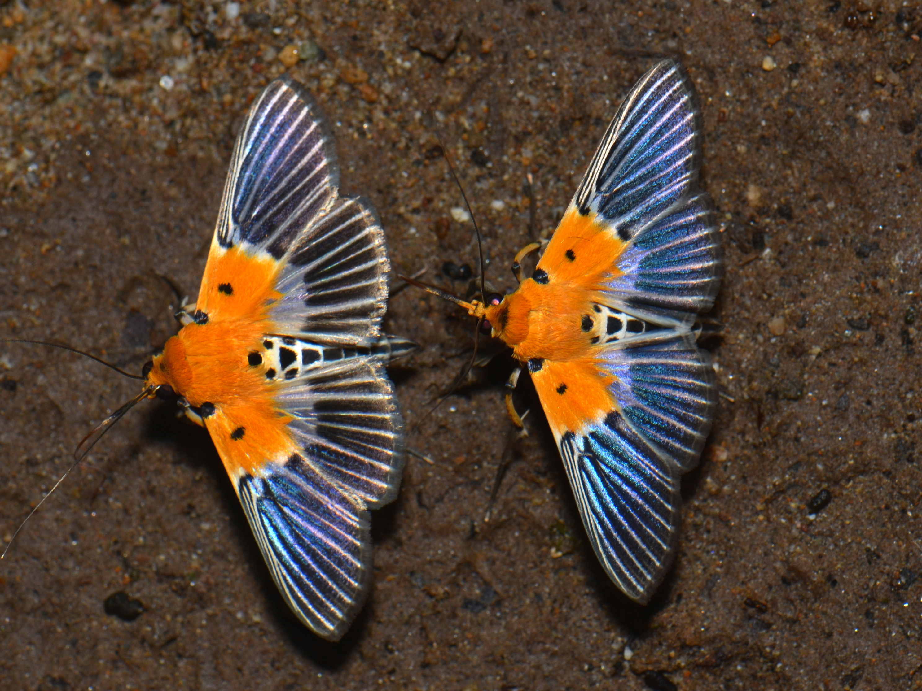 Thanks to Bogdan Pogadaev for ID